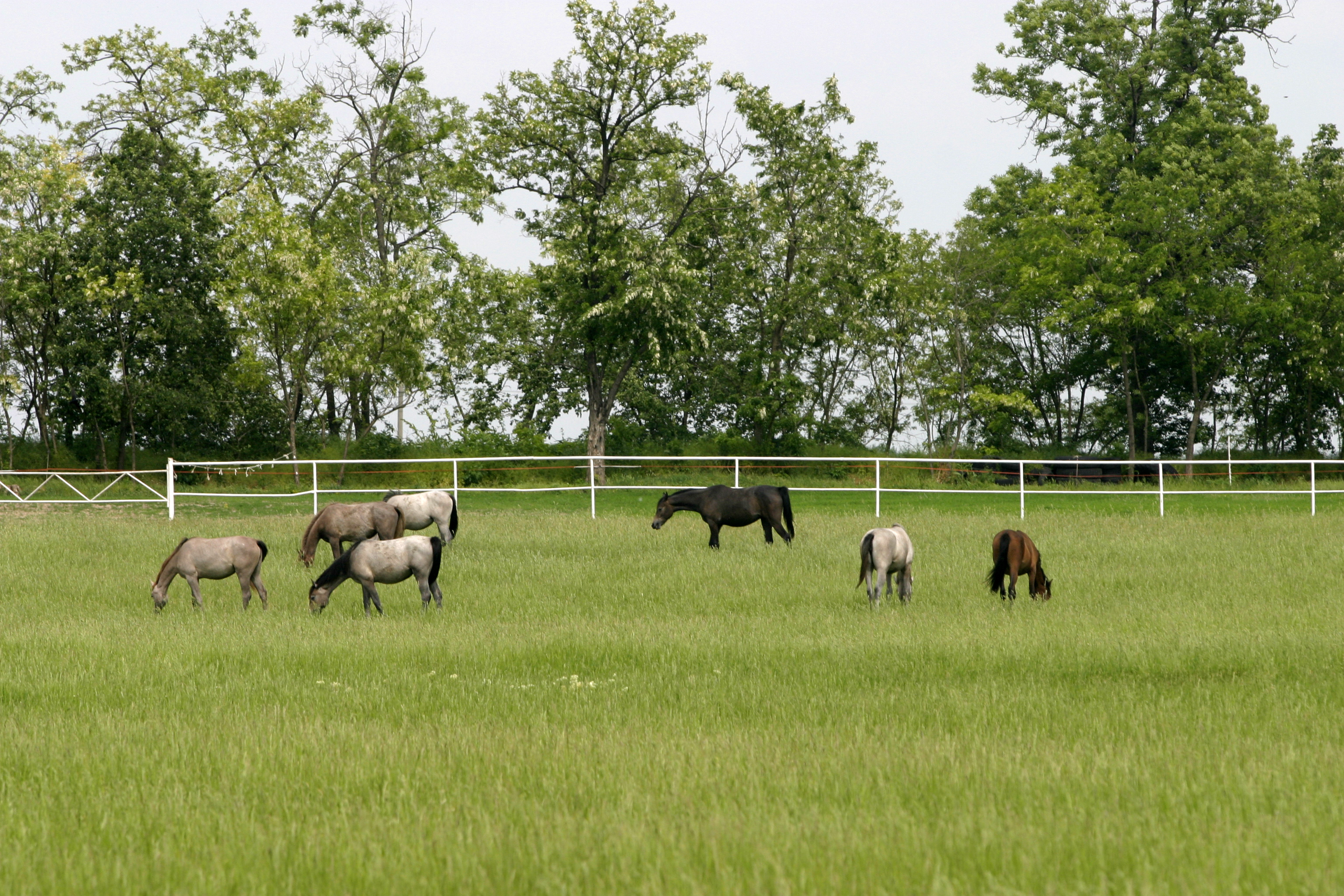 Group of horses at a range at the national stud of Bábolna in Hungary